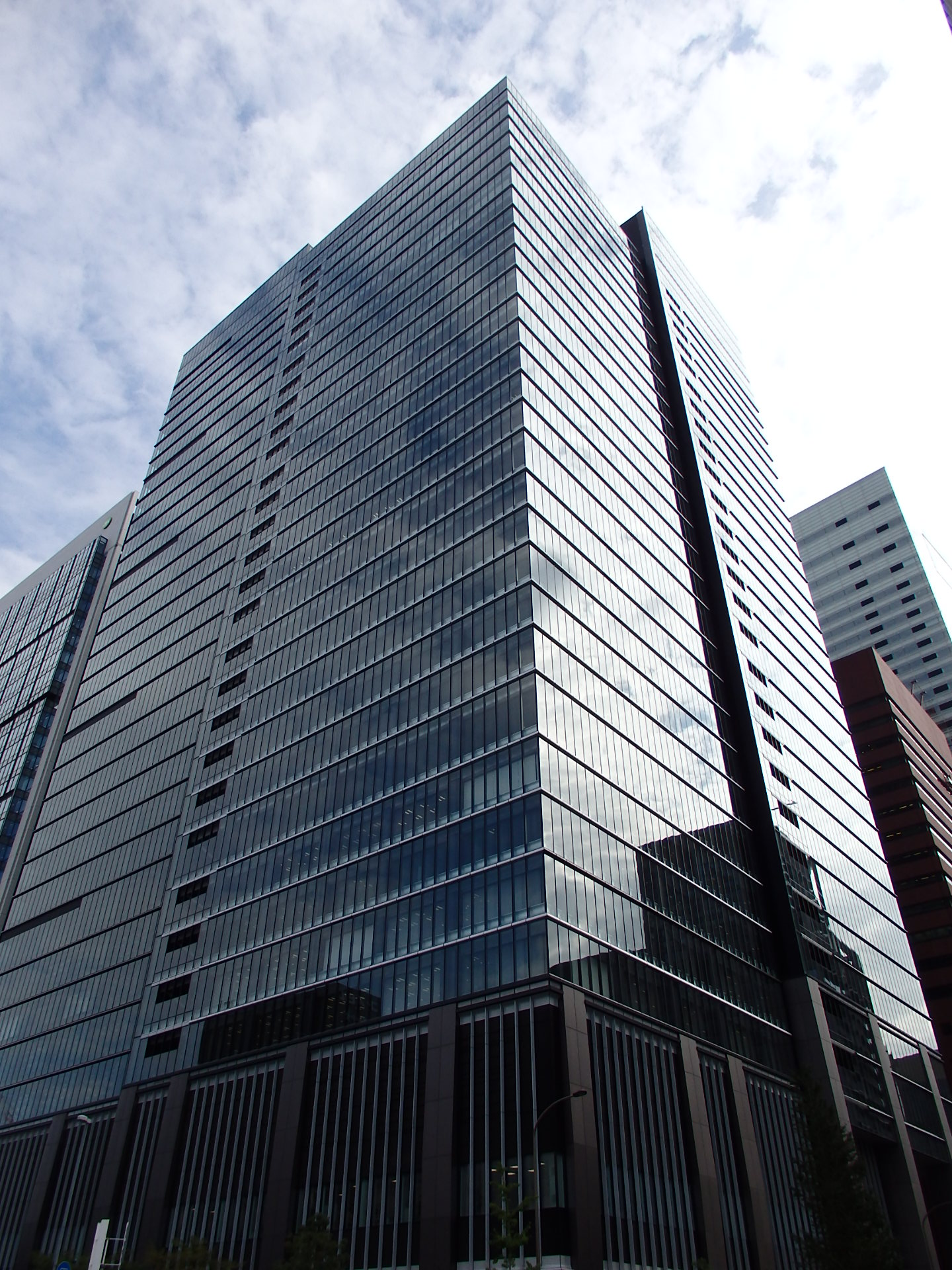 Headquarters of Sony Financial Holdings in Chiyoda-ku, Tokyo, Japan.